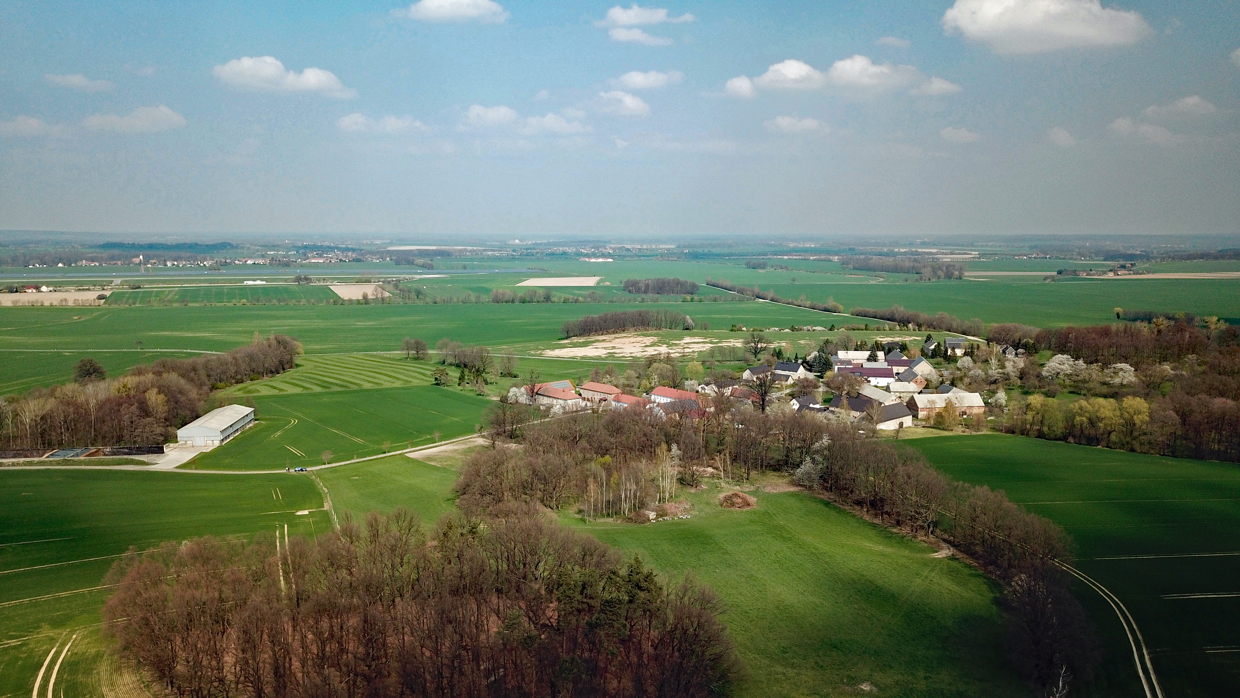 Kumschütz (Kubschütz, Saxony, Germany) Hornjoserbsce: Powětrowy wobraz Kumšic Dieses Foto wurde mit einem Quadcopter innerhalb der RMZ des Flugplatzes EDAB aufgenommen. Der Flugleiter wurde am Aufnahmetag telephonisch über Ort und Zeit informiert und hat zugestimmt. Der Flug erfolgte auf Grundlage der Allgemeinverfügung der Landesdirektion Sachsen zur Erteilung der Betriebserlaubnis für unbemannte Luftfahrtsysteme und Flugmodelle gemäß § 21a LuftVO und Zulassung von Ausnahmen von Betriebsverboten gemäß § 21b LuftVO für den Freistaat Sachsen.